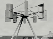 James Blyth's 1895 wind turbine at the Montrose Lunatic Asylum